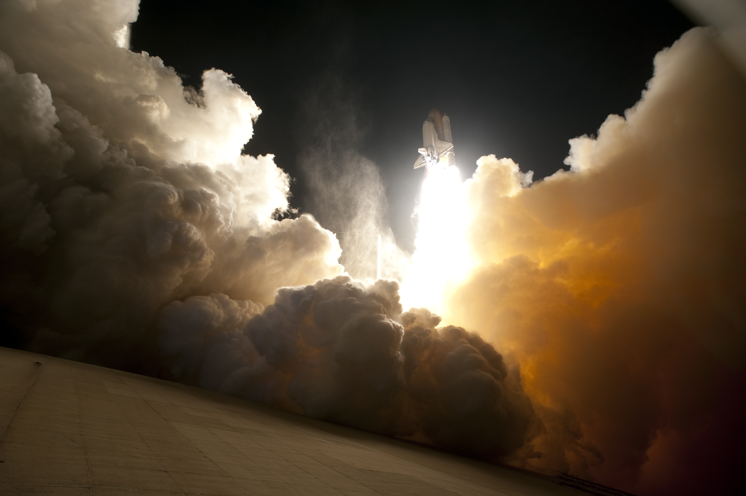 An exhaust cloud engulfs Launch Pad 39A at NASA's Kennedy Space Centre in Florida as space shuttle Endeavour lifts off into the night sky. The primary payload for the STS-130 mission to the International Space Station is the Tranquility node, a pressurized module that will provide additional room for crew members and many of the station's life support and environmental control systems. Attached to one end of Tranquility is a cupola, a unique work area with six windows on its sides and one on top. The cupola resembles a circular bay window and will provide a vastly improved view of the station's exterior. The multi-directional view will allow the crew to monitor space-walks and docking operations, as well as provide a spectacular view of Earth and other celestial objects. The module was built in Turin, Italy, by Thales Alenia Space for the European Space Agency.